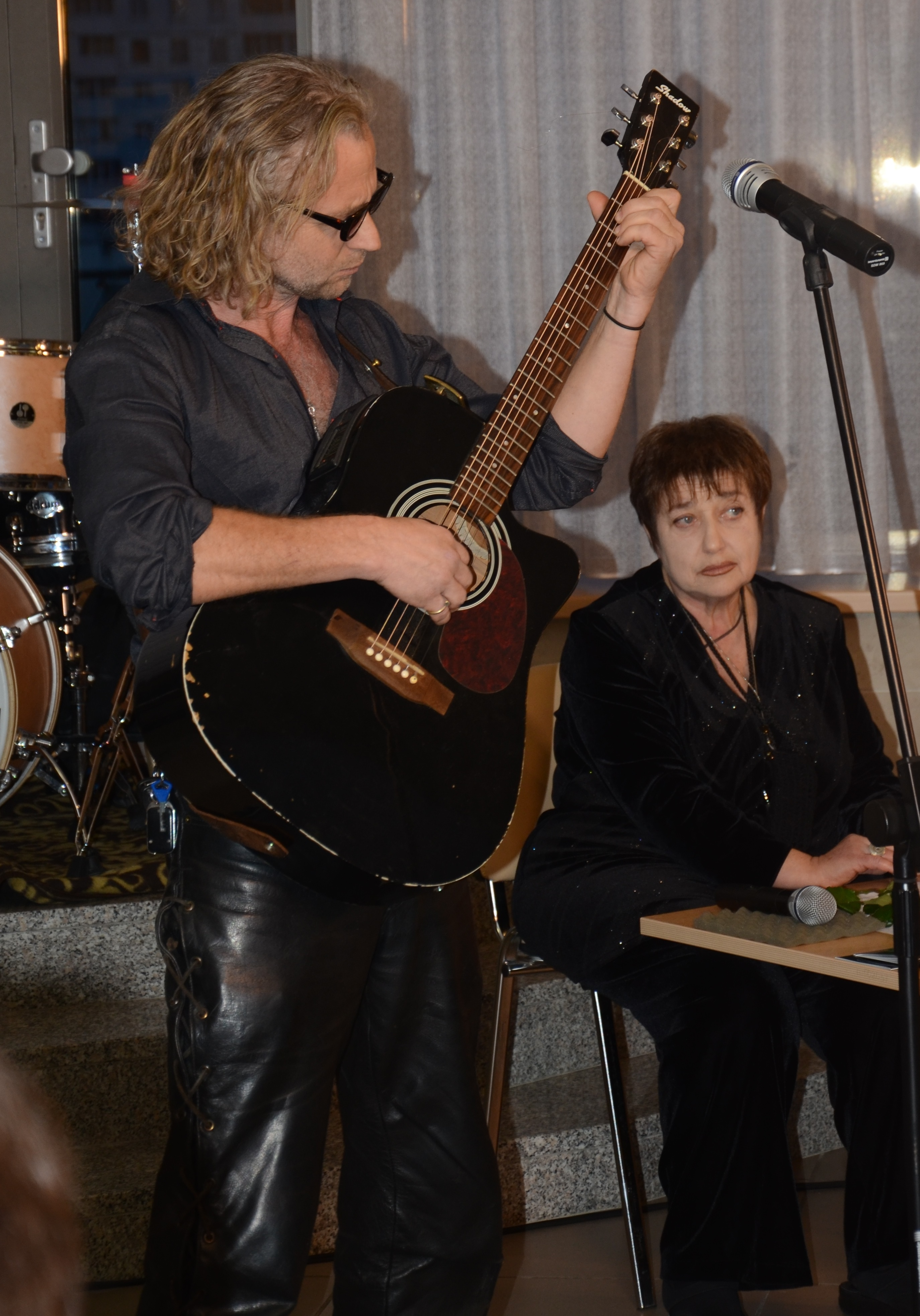 Opening of the "Smart Metal" art project in National Library of Belarus on October 22, 2014. The curator of the art project - Larisa Finkelstein.